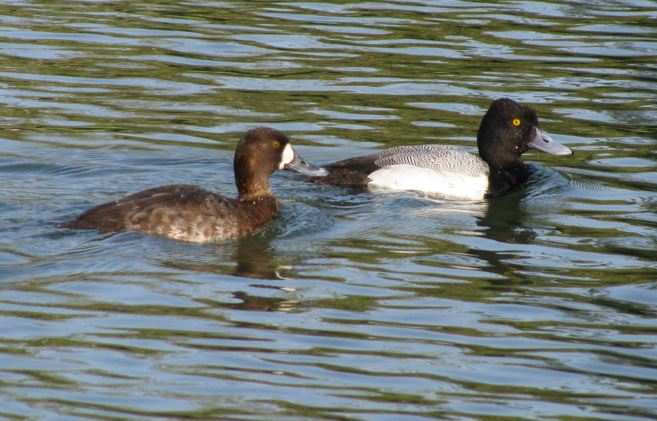 Aythya affinis - lesser scaup location: Ralph B. Clark Regional Park, Buena Park, California, USA